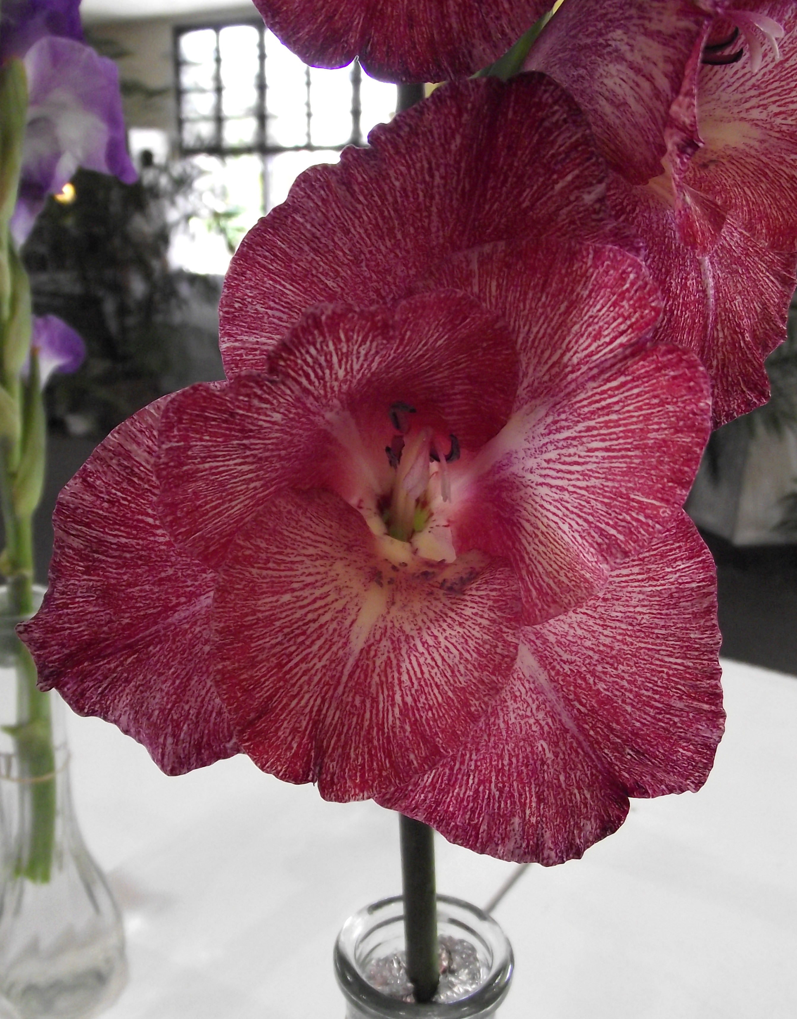 Gladiolus 'Chocolate Ripple' at the San Diego County Fair, California, USA. Identified by exhibitor's sign.